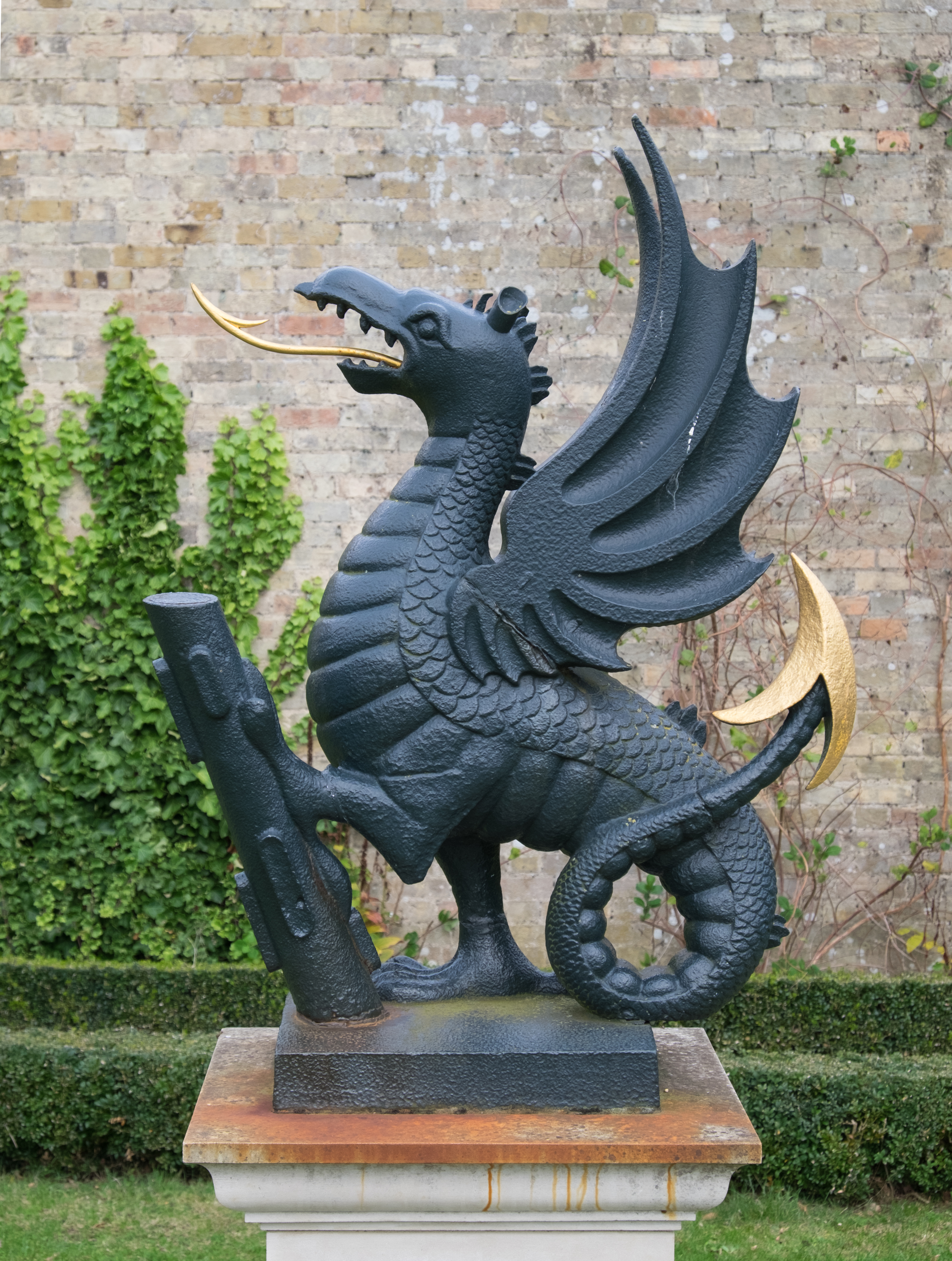 A wyvern made from cast iron in 1825 in the garden at Wrest Park, Silsoe, Bedfordshire. It was one of a pair that were mounted on top of the gate piers at the Silsoe Gate.